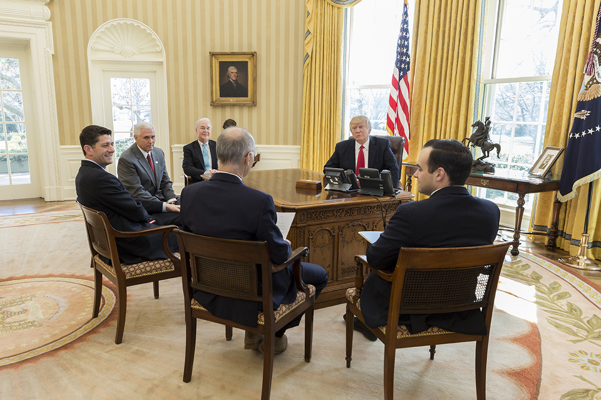 President Donald Trump meets with (from left) U.S. Secretary of Health and Human Services Tom Price; Vice President Mike Pence; Speaker of the House Paul Ryan; Dr. Zeke Emanuel; and Andrew Bremberg, Dir. Domestic Policy Council, Monday, March 20, 2017, in the Oval Office. (Official White House Photo by Benjamin Applebaum)